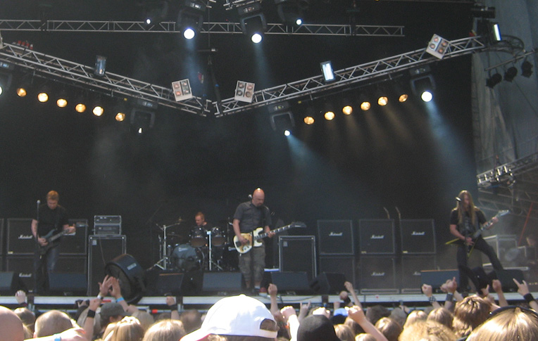 Thrash metal band Stone at Sauna Open Air festival